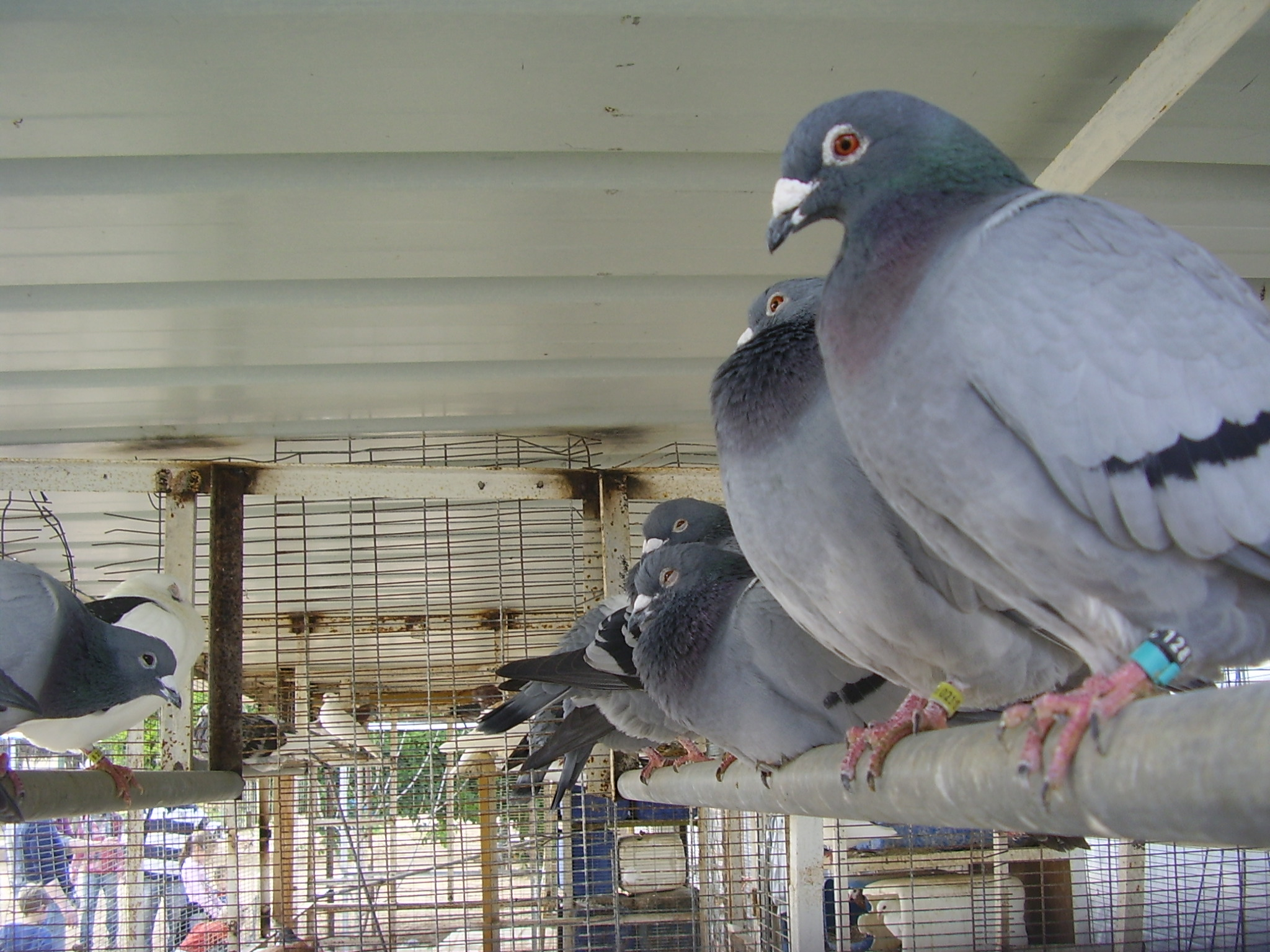 Homing Pigeons in Talmei-Yosef in the Negev